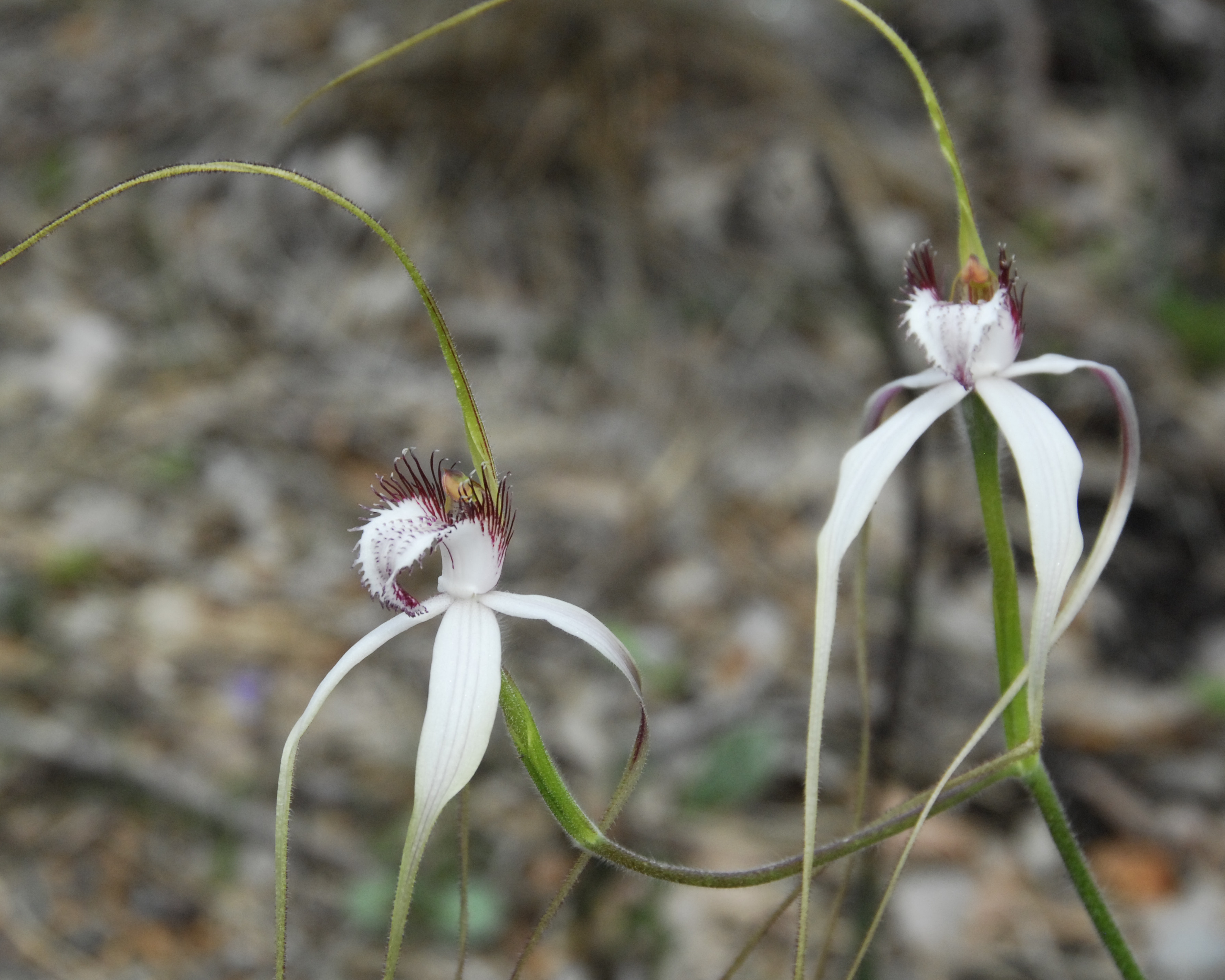 Caladenia longicauda species, photographed in John Forrest National Park, Western Australia. The specimen has appeared after a small high intensity bushfire, by a roadside in the National Park. See also: Image:Caladenia sp JF (John Forrest).jpg